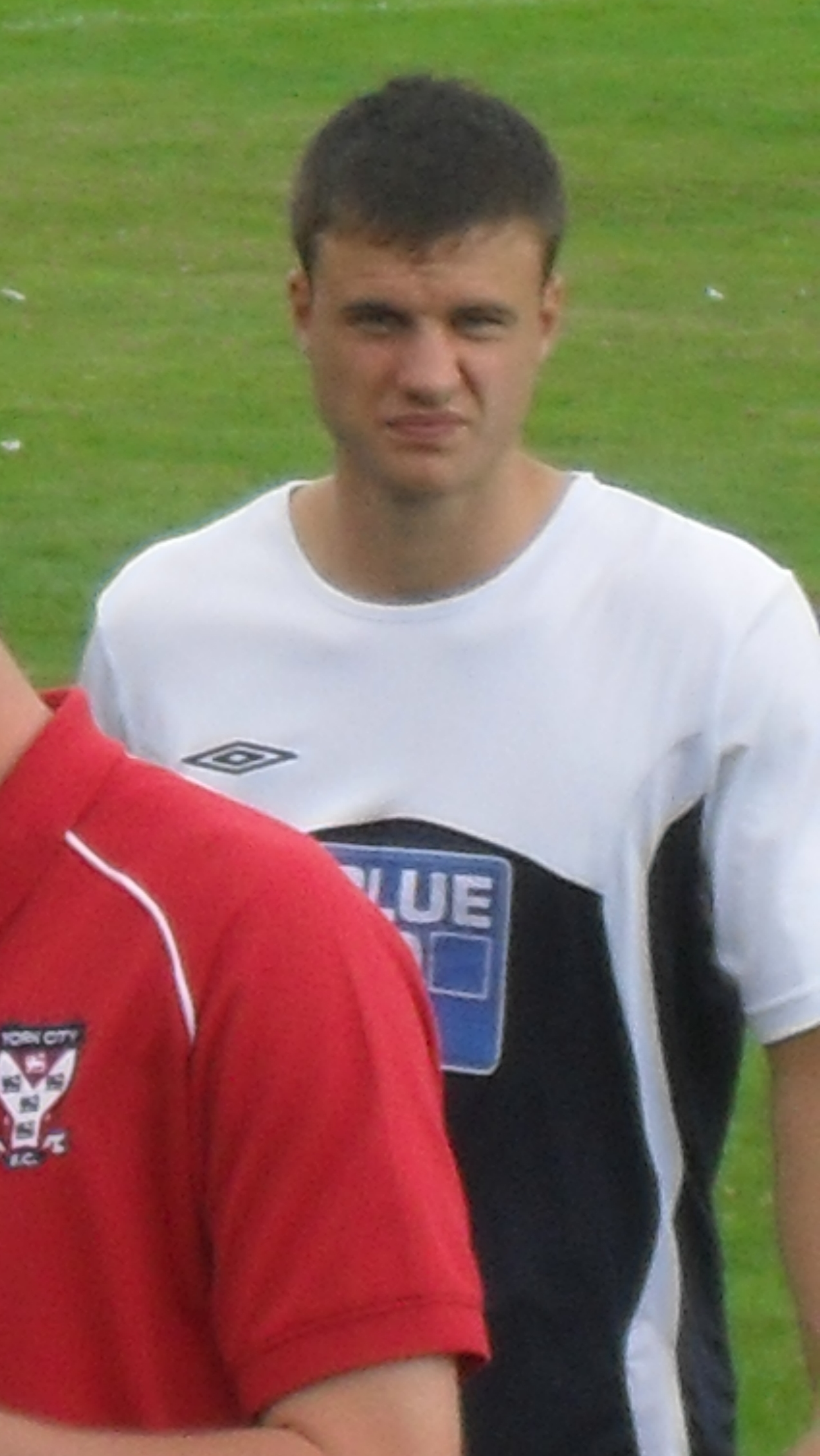 Jonathan Smith after York City's match against North Ferriby United at Grange Lane, North Ferriby on 7 August 2010